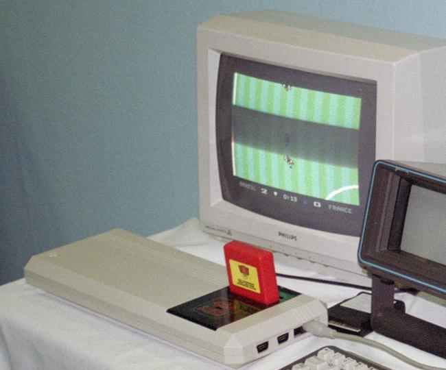 Commodore 64 Game System